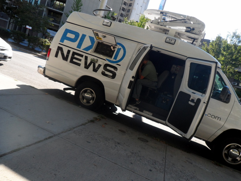 This photo shows a WPIX truck.